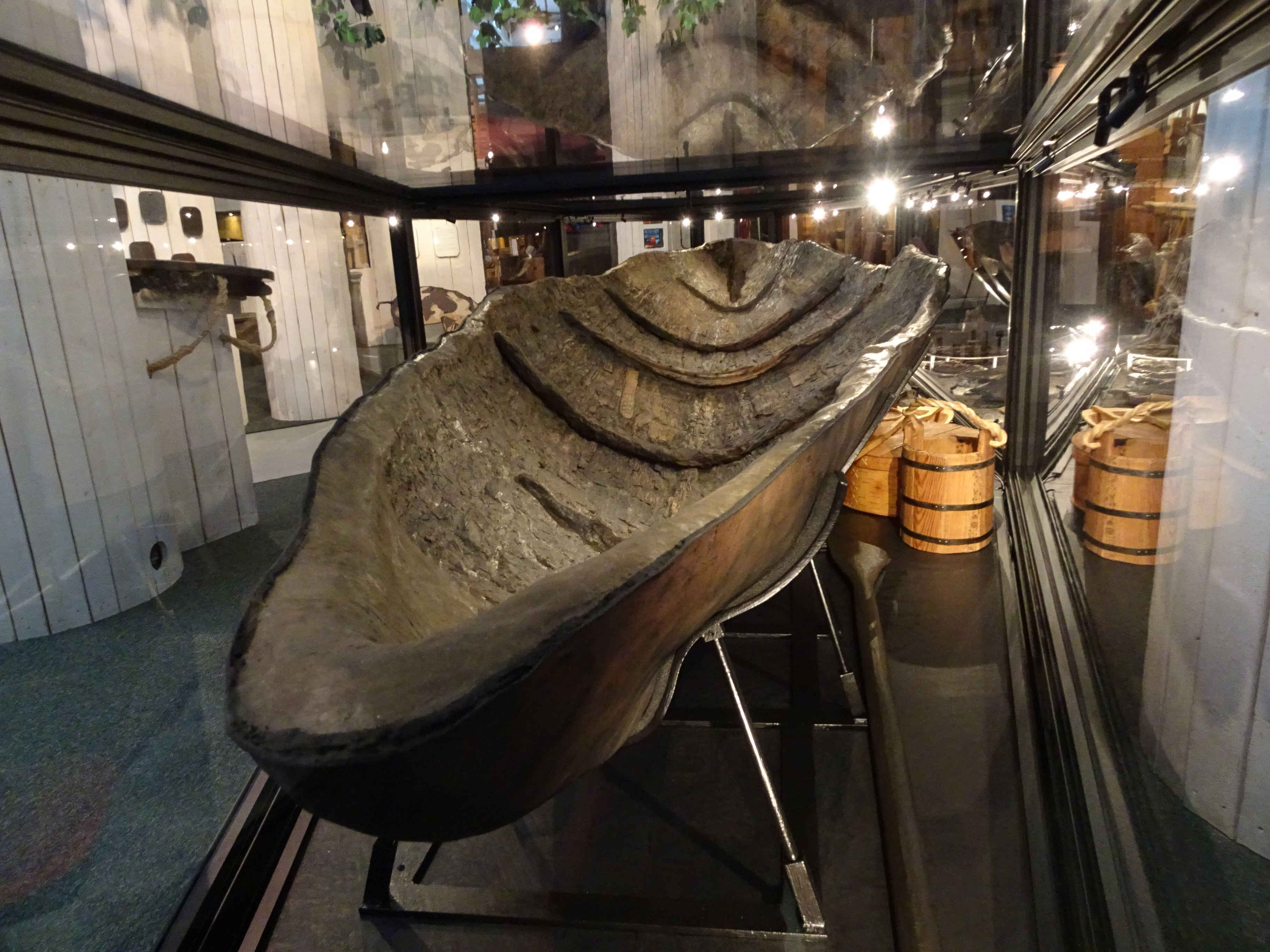 Tunabåten from a ship burial in Tuna near Västerås in Sweden. It is restored and displayed at the Västmanlands läns museum in Västerås, Sweden.